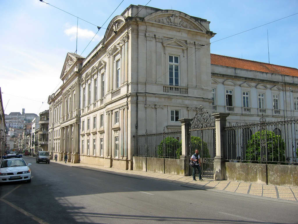 The palace of the Counts of Ameal at Rua da Sofia, in Coimbra. The building, which still retains most of its late-gothic interiors in spite of its external neoclassical design, now serves as the city's court house - the Palácio da Justiça.